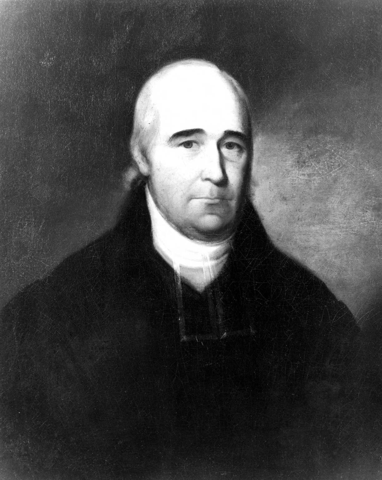 Richard Furman (1755-1825), Baptist leader, Furman University, Special Collections